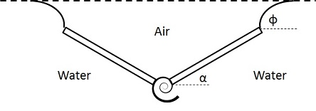 Diagram detailing the submerging of two plates hinged by a torsional spring.